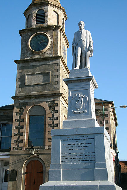 Statue of Sir Walter Scott. This statue stands in Market Place, Selkirk, beside the former Town House and Sheriff Court House, where Sir Walter Scott dispensed justice from 1803-32. Erected in 1839, it shows Scott in the dress of Sheriff, and the pedestal carries the arms of Scott, the arms of Selkirk, a winged harp and a Scots thistle. A new base was added to the front in 1932. (Source: Borders and Berwick, An Architectural Guide by Charles Alexander Strang).